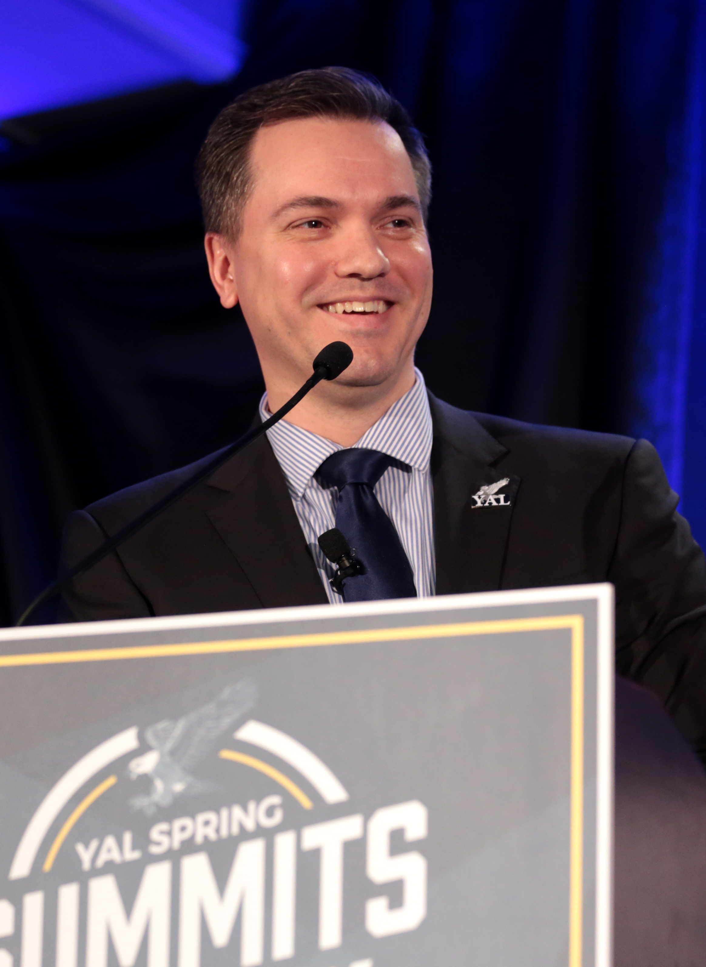 Austin Petersen speaking at an event in St. Louis, Missouri.